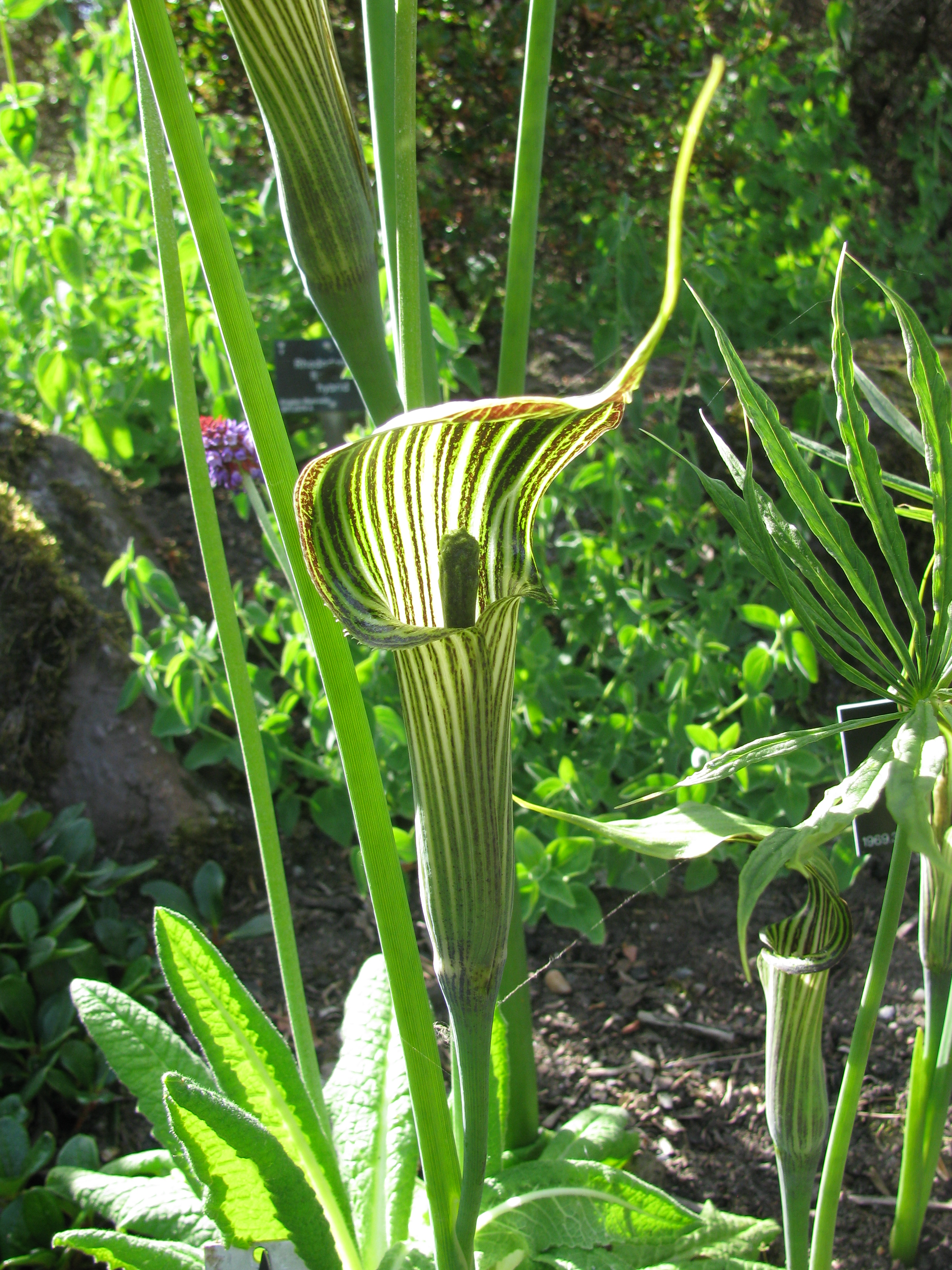 Arisaema ciliatum Royal Botanic Garden Edinburgh: Accession number 1994.3984 (Paterson and Main collection)